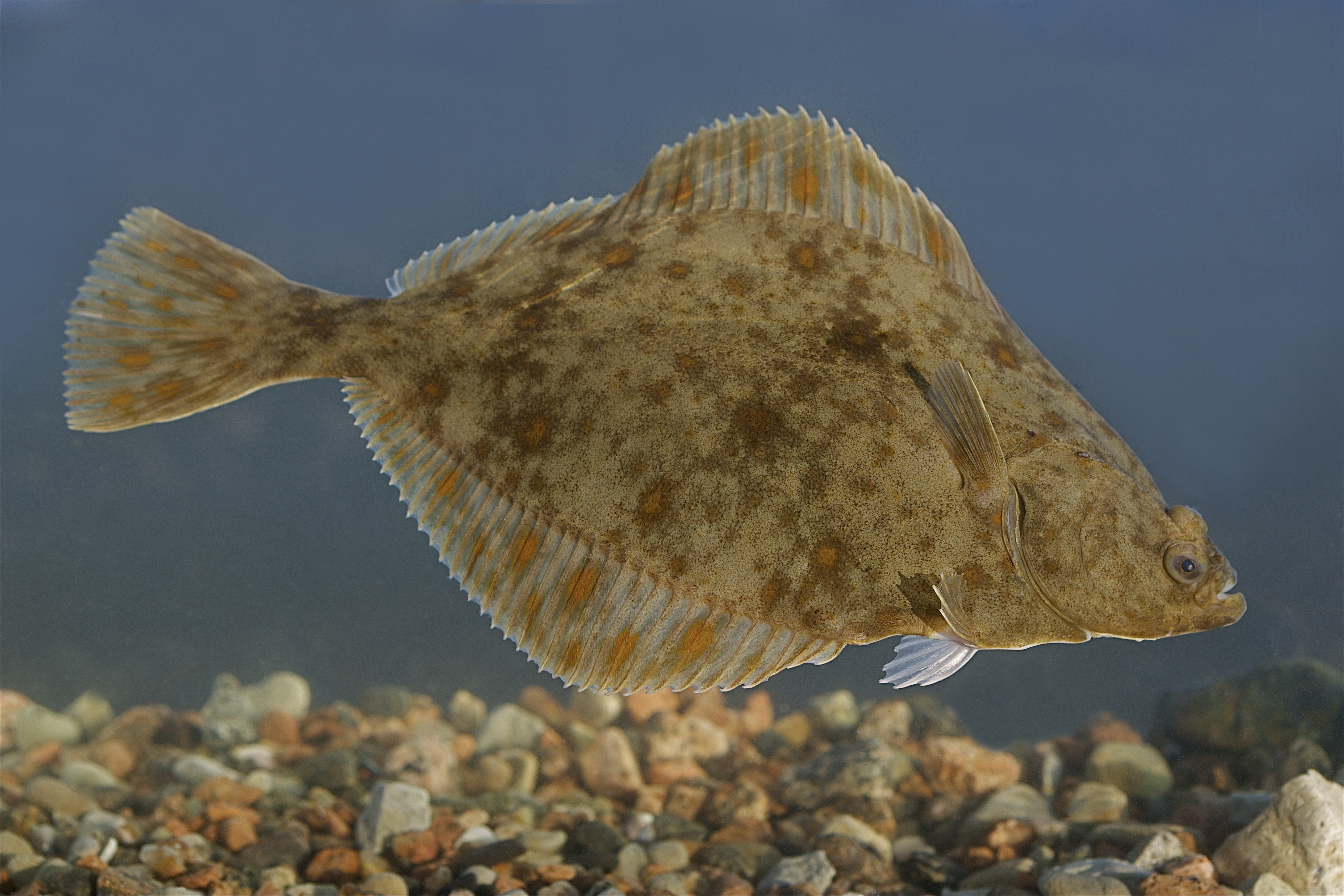 Platichthys flesus near Vääna-Jõesuu in Estonia.